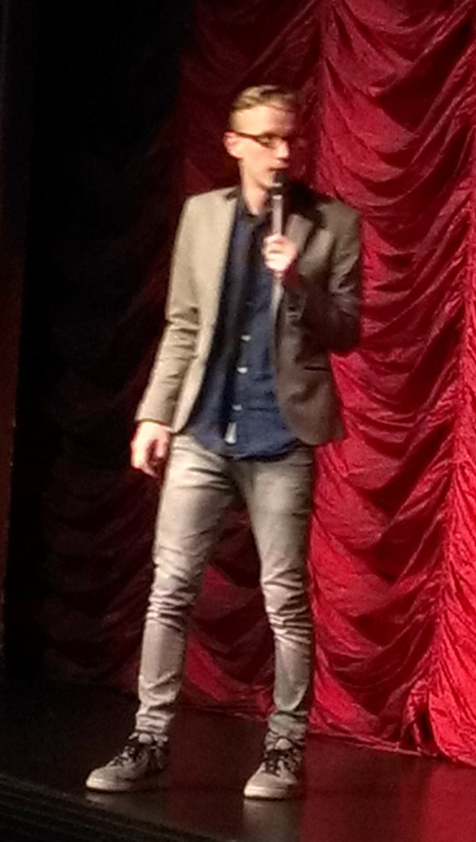 The two iron thrones tour.